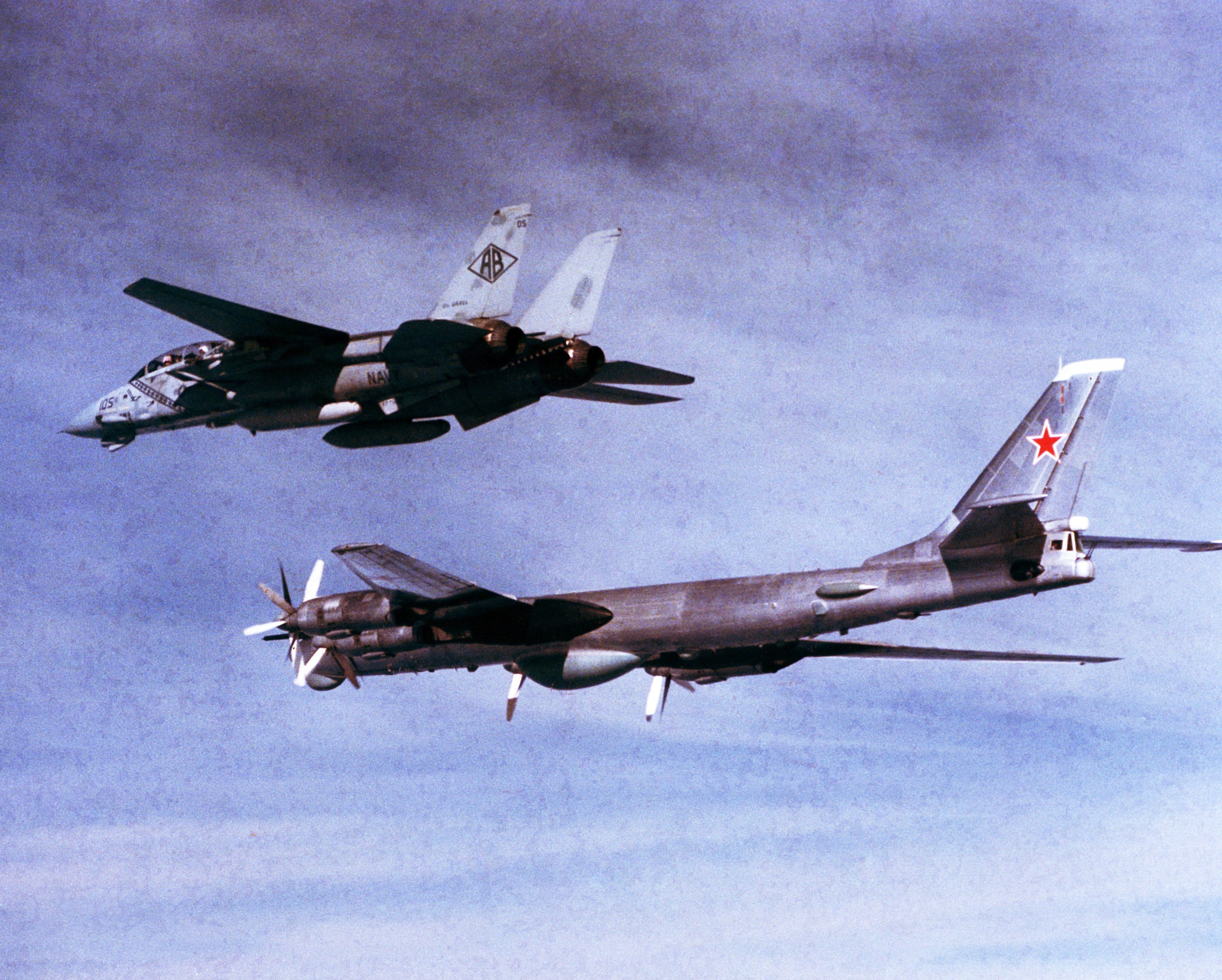 A U.S. Navy Grumman F-14A Tomcat fighter (BuNo 159452) squadron VF-102 Diamondbacks escorts a Soviet Tu-95RTs Bear-D surveillance aircraft over the North Atlantic, on 1 September 1985. VF-102 was assigned to Carrier Air Wing 1 (CVW-1) aboard the aircraft USS America (CV-66) for a deployment to the Atlantic Ocean from 24 August to 9 October 1985.